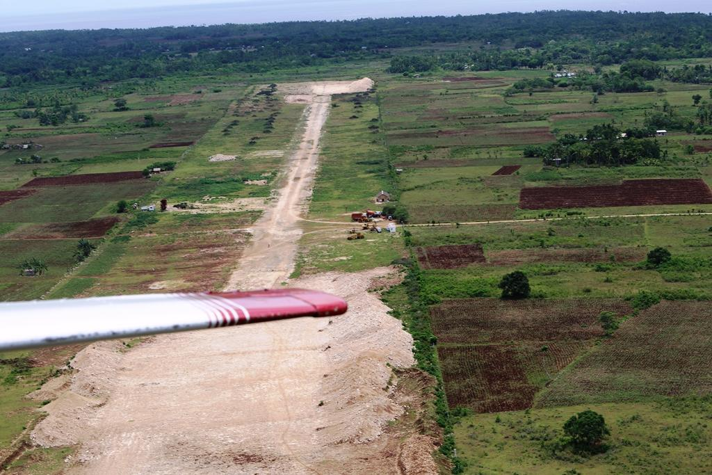 View of Camotes airstrip from light plane climbing after takeoff